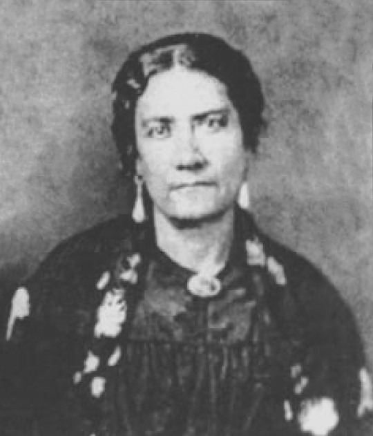 Grace Kamaikui Young in 1853. From an ambrotype by Hugo Stangenwald at Bishop Museum.